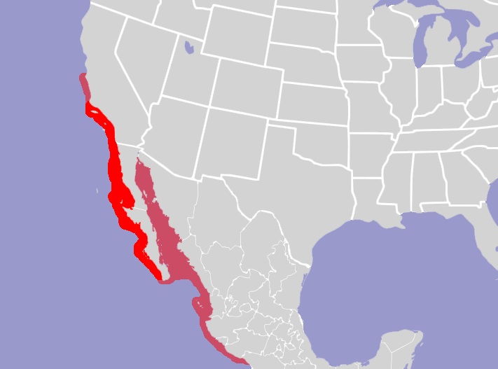 Map of North America and its second-level political divisions. Canadian provinces, US and Mexican states. Canada, Mexico, United States. Non-contiguous parts of a states/provinces are "grouped" together with the main area of the state/provinces, so any state/provinces can be coloured in completion with one click anywhere on the state/provinces's area. Also, all states/provinces have a "id" attached to them, making them easy to find. Select "find" and then enter in the state/provinces's ISO 3166-2 code in the "id" field to find it. The codes can be found here (Canada), here (USA) and here (Mexico).